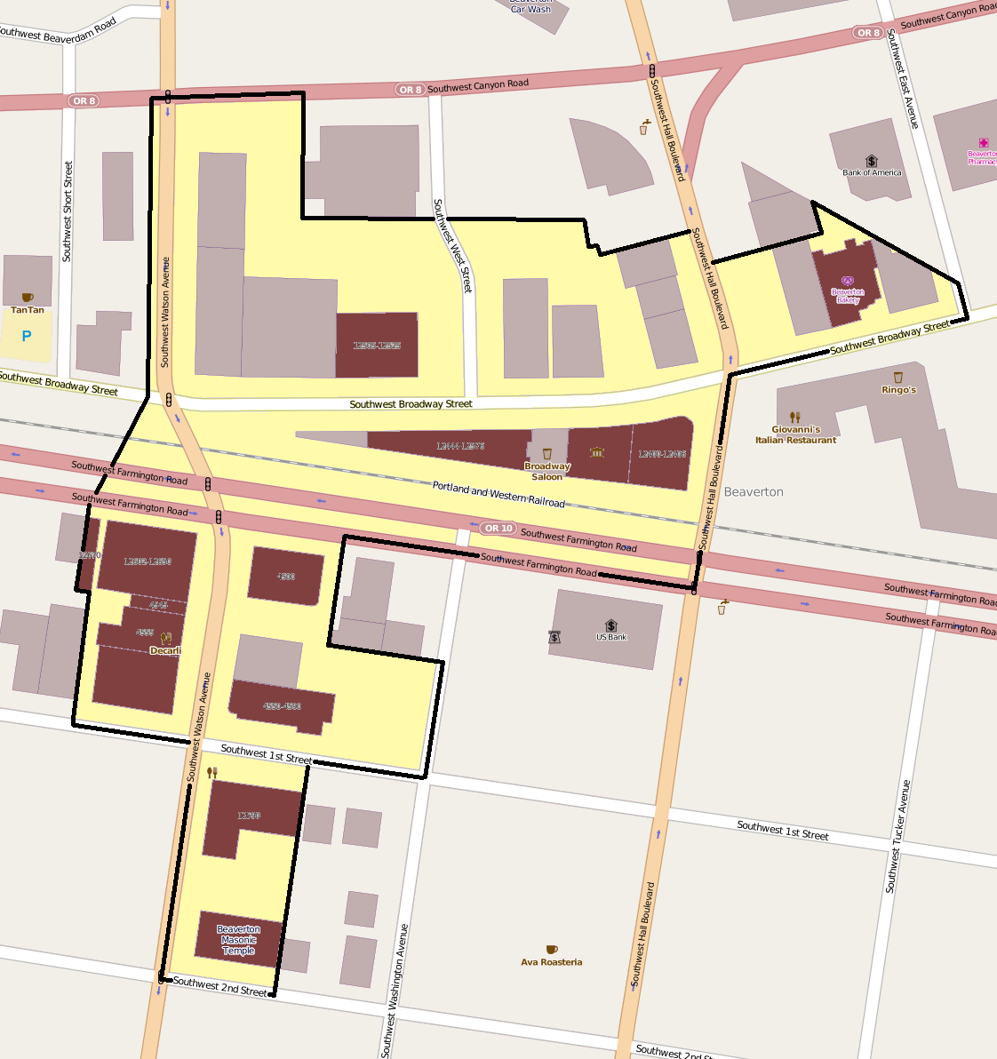 Map showing the boundaries of the Beaverton Downtown Historic District in Beaverton, Oregon, United States. The historic district is listed on the US National Register of Historic Places. Boundary data is derived from the historic district's National Register nomination form. Black boundary/yellow area: Beaverton Downtown Historic District boundaries. Brown shading: Buildings listed as contributing resources in the historic district.